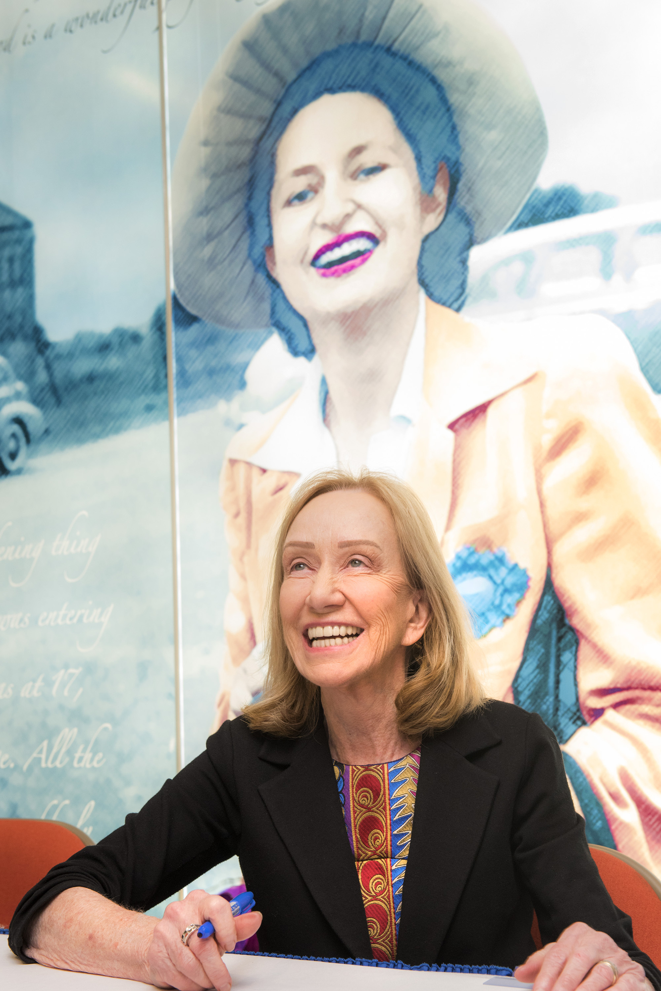 On Tuesday, September 25, 2018, the LBJ Presidential Library hosted a conversation with Pulitzer Prize-winning author and U.S. presidential historian Doris Kearns Goodwin. She discussed her new book, Leadership: In Turbulent Times, with Mark K. Updegrove, president and CEO of the LBJ Foundation.